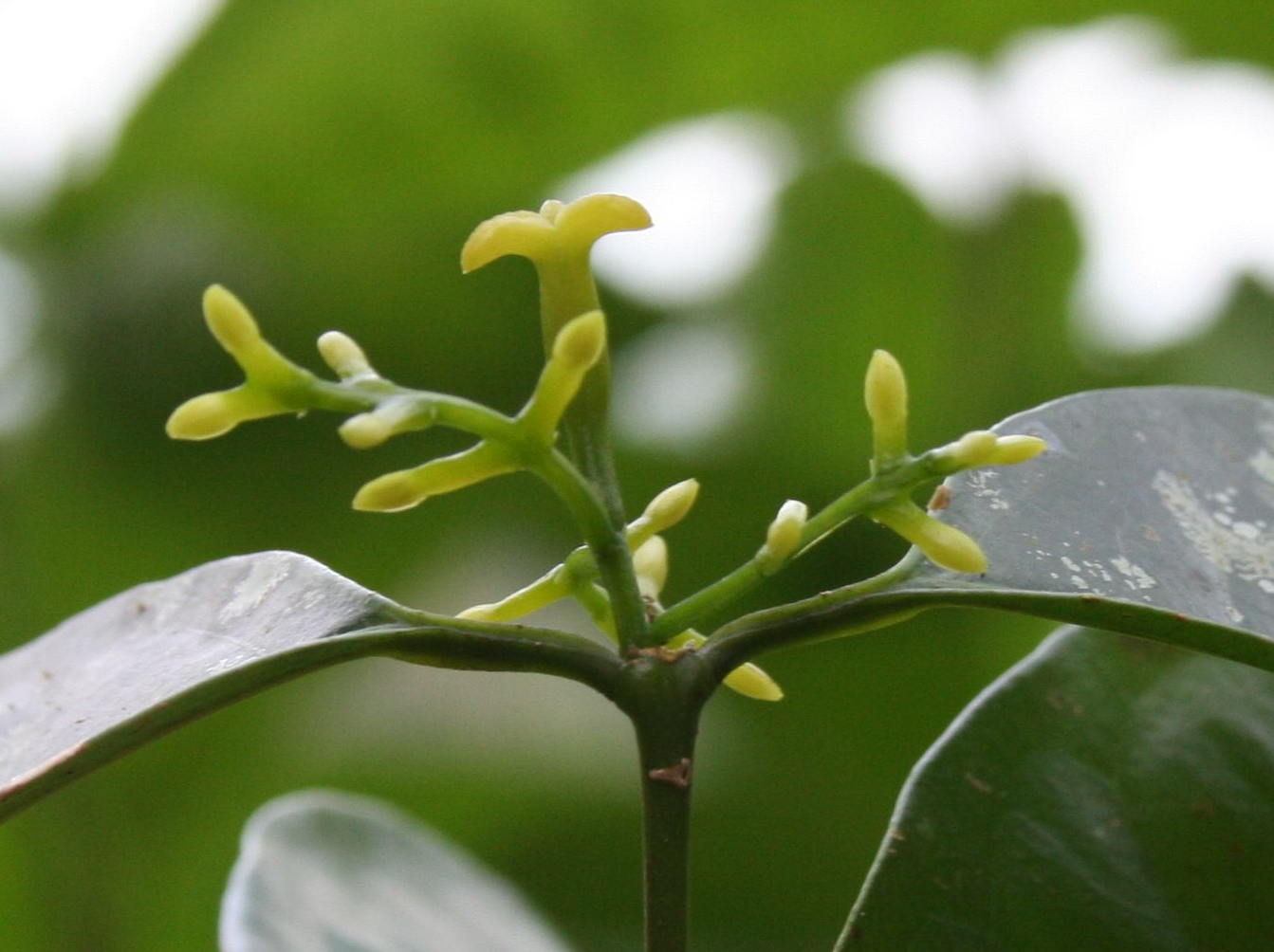 Flower of Haptanthus hazlettii. The flower is reduced to the minimum: one pistil and few stamens each held by a stiff filament.